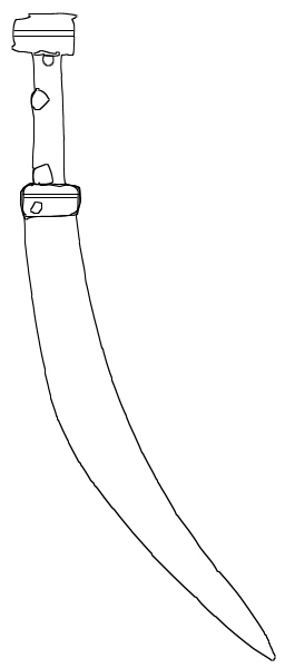 Ancient Sica weapon used by Illyrians,Thracians other ancient peoples and Thraex gladiators in ancient Rome,Length varied but this specimen is 35,5 cm